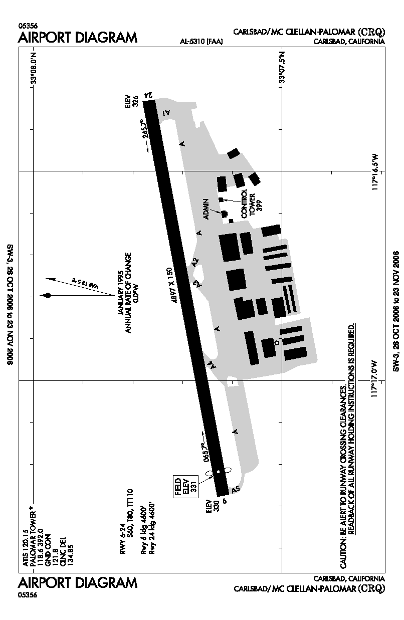 FAA airport diagram for CRQ (McClellan-Palomar Airport) in California, United States.